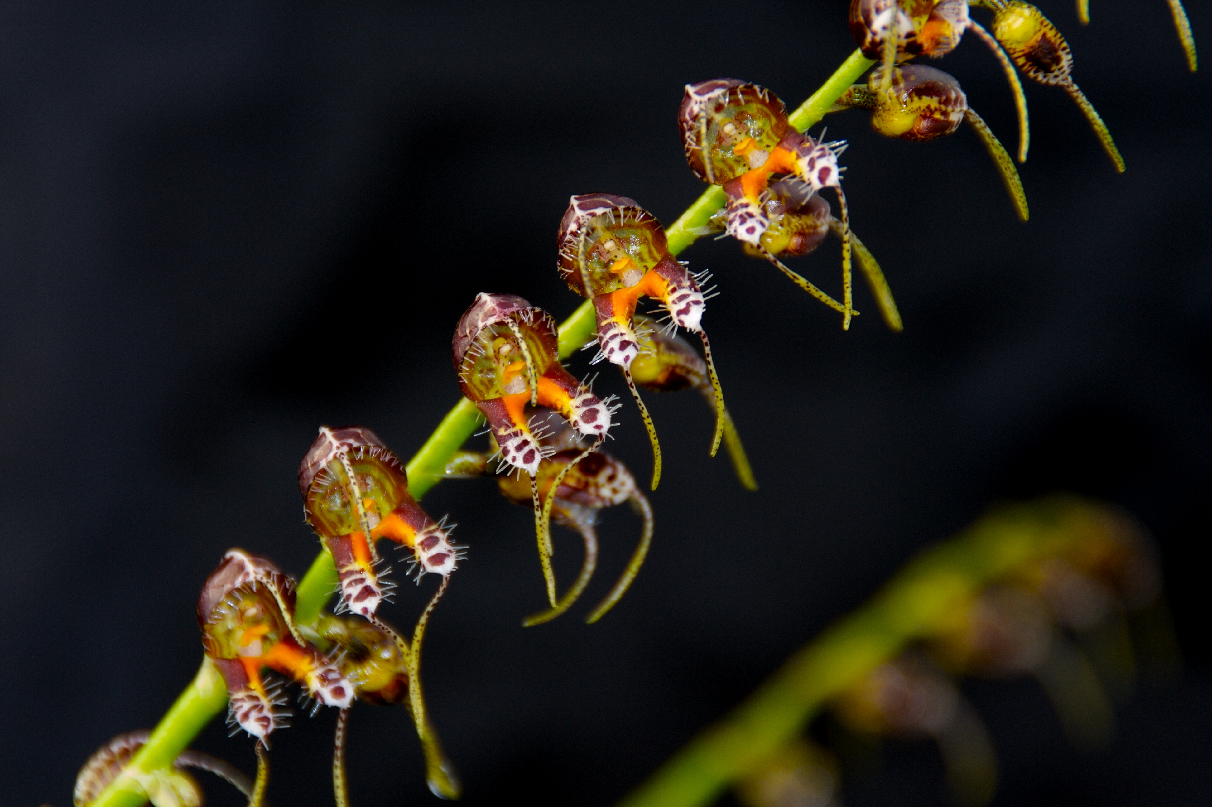 Orchid: Spilotantha ferrusii, inflorescence and multiple flowers